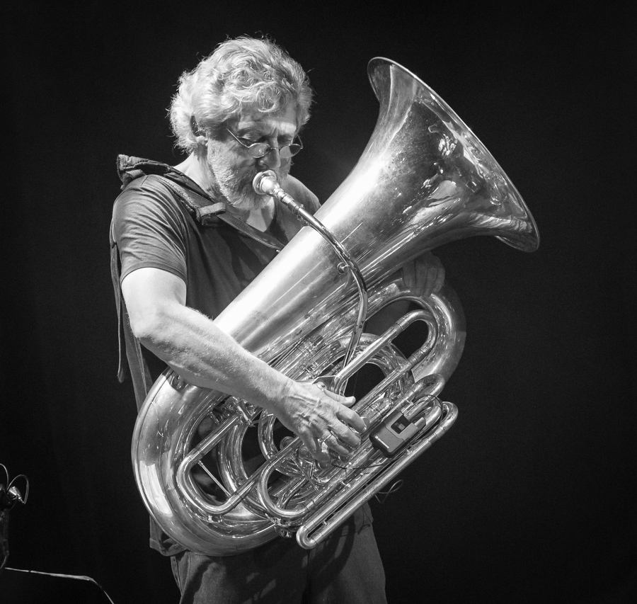 Stein Erik Tafjord with James Morrisson and Brazz Brothers at Chat Noir. The concert was part of Oslo Jazzfestival and took place on 19. August 2017 in Oslo. Lineup: James Morrisson (trumpet), Helge Førde (trombone), Jan Magne Førde (trumpet), Runar Tafjord (horn), Stein Erik Tafjord (tuba), Kenneth Ekornes (drums) and Kåre Nymark jr (trumpet).